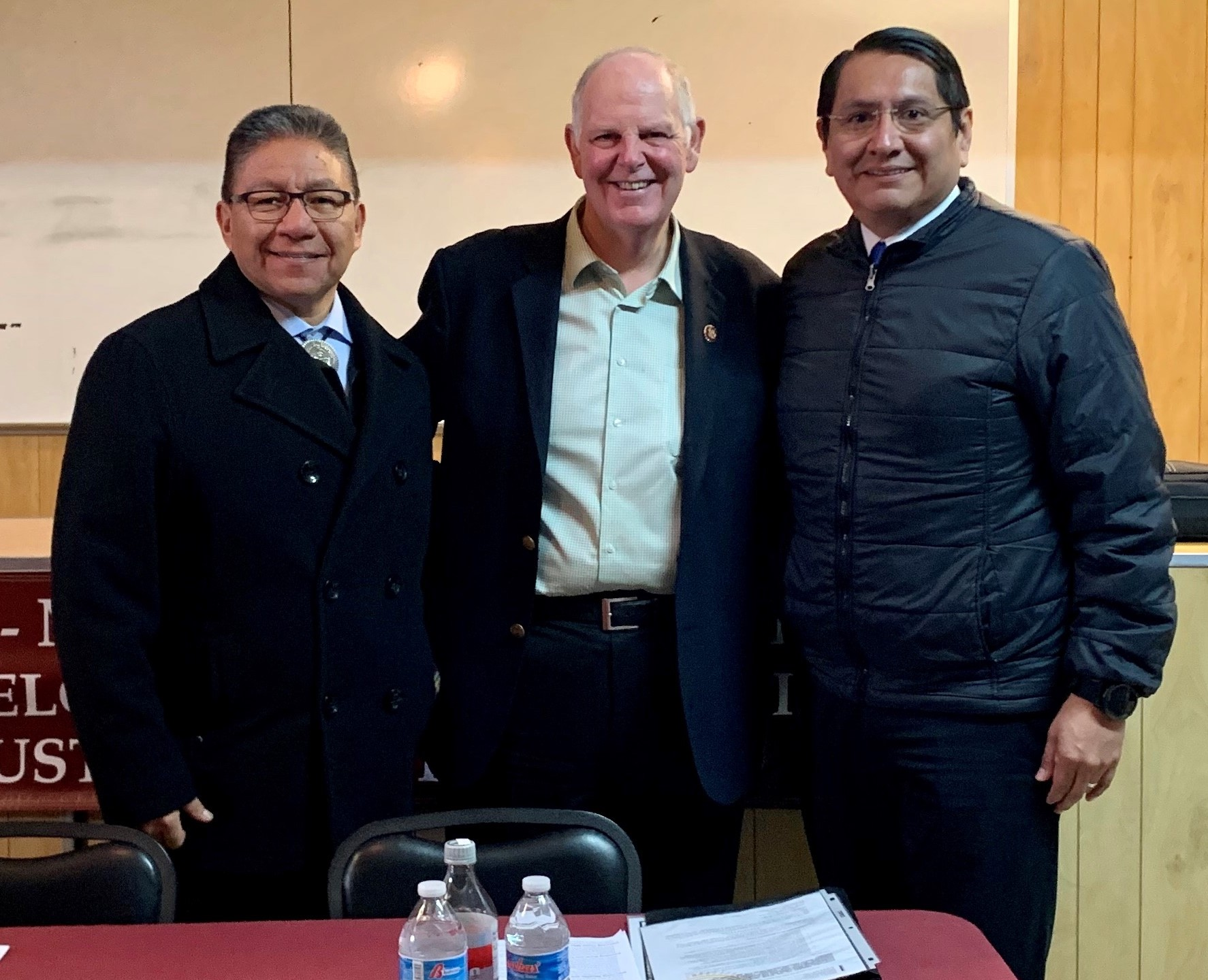 Tom O'Halleran with Jonathan Nez and Myron Lizer